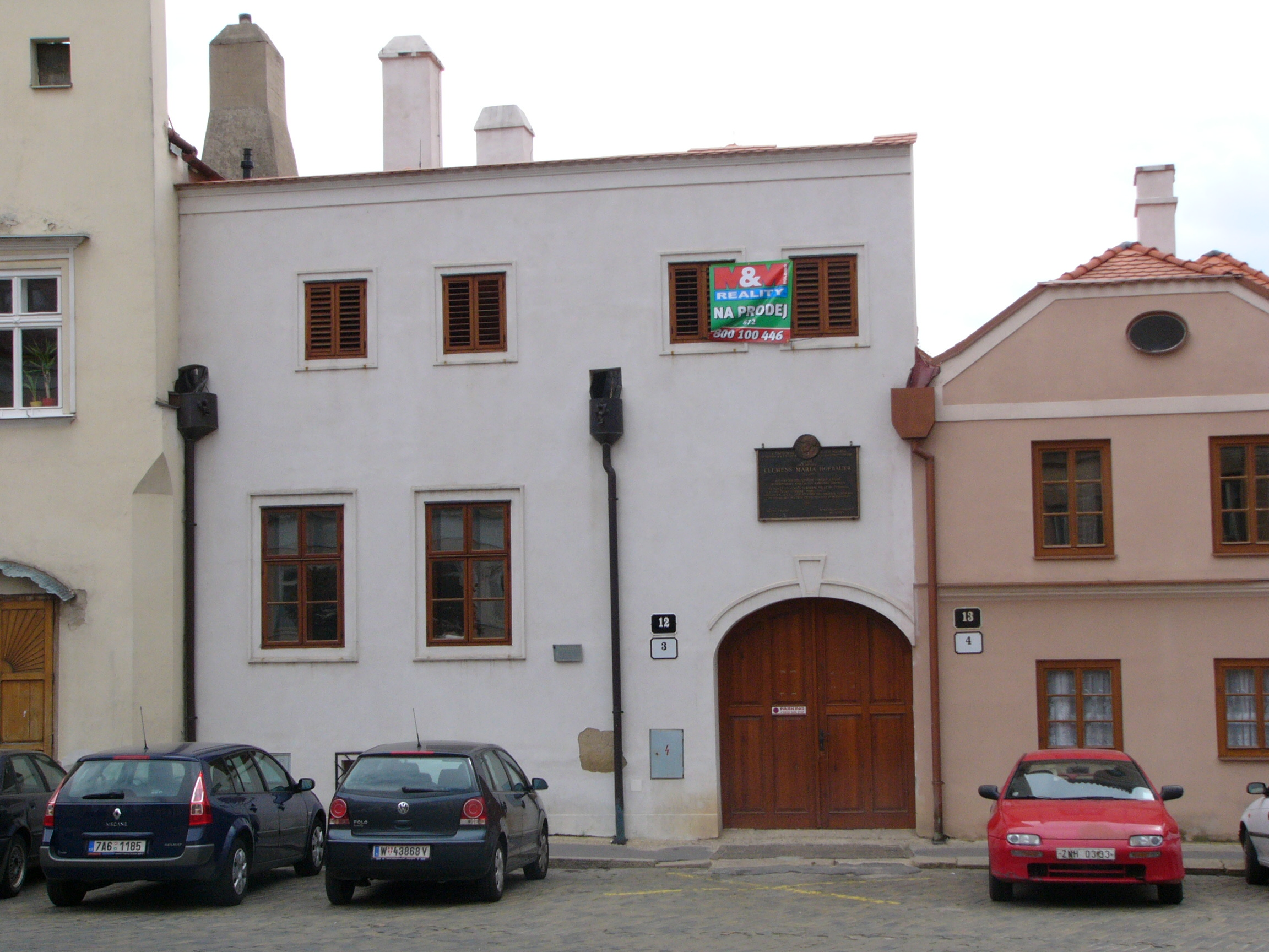 House in nám. Václavské 12/3, Znojmo, where saint Klemens Maria Hofbauer was an apprentice in a bakery .